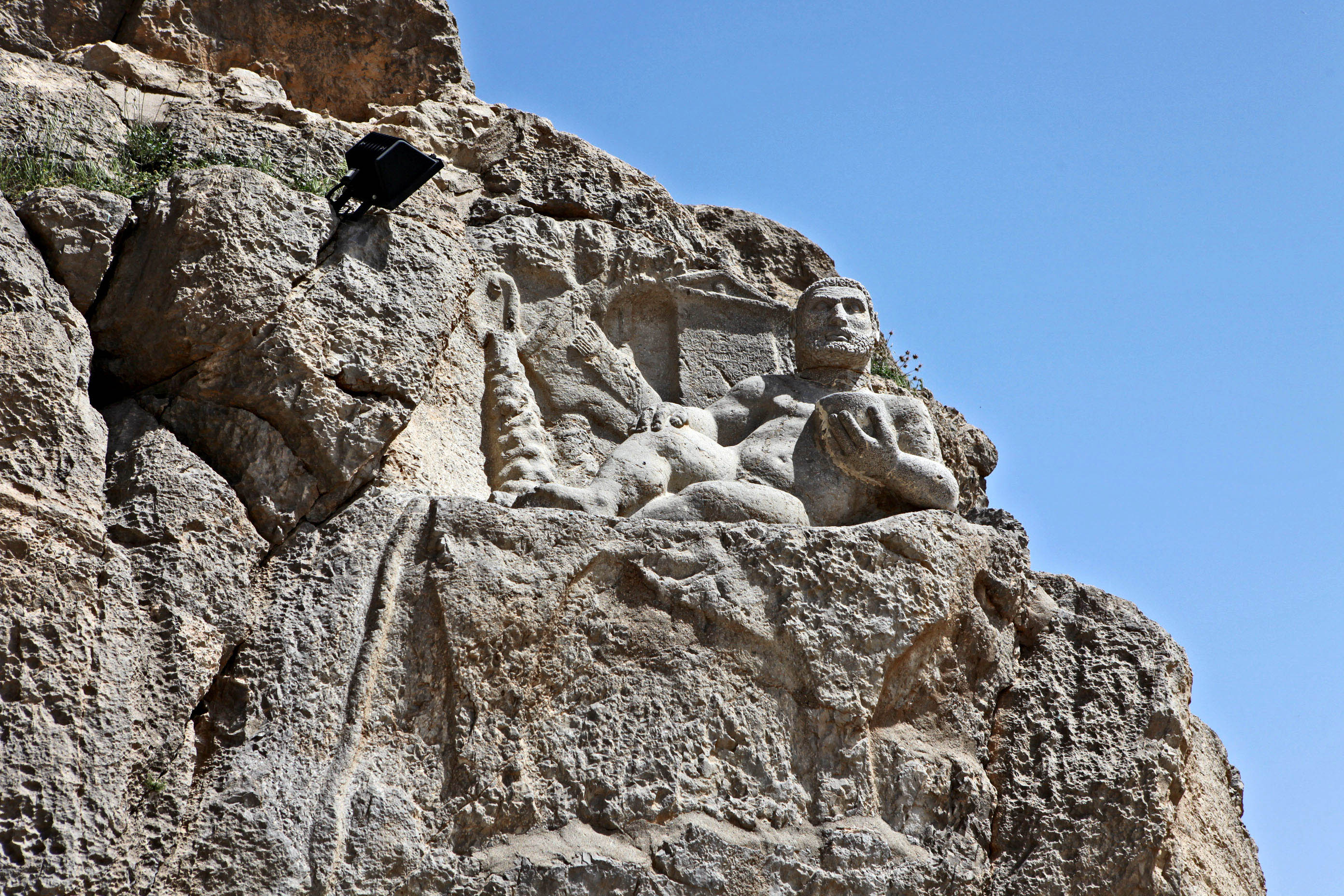 Statue of Herakles, Bisotun, Iran